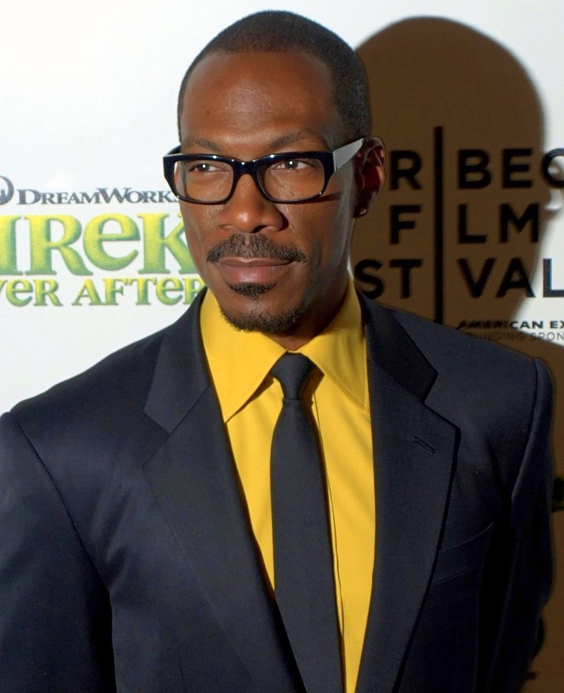 Eddie Murphy at the Tribeca Film Festival 2010.